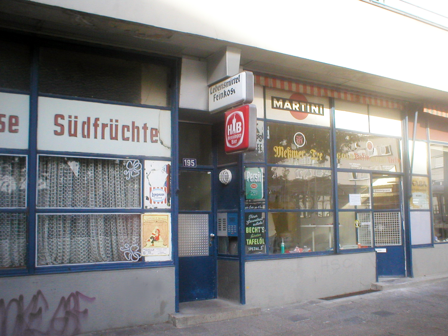 Store at a building of the New Frankfurt project, still with the original windows in 2003. Some years later they were replaced.